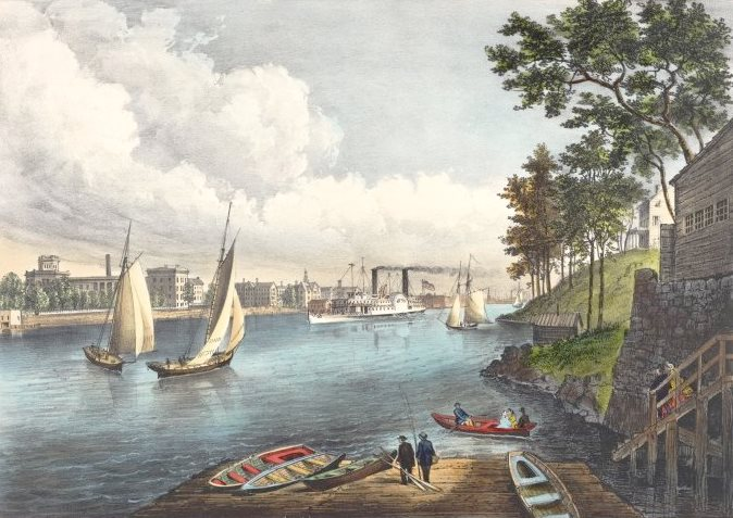 Lithograph showing "Blackwells Island, East River, From Eighty Sixth Street, New York," published by Currier & Ives, 152 Nassau Street, 1862. Courtesy of the New York Public Library Digital Collection.